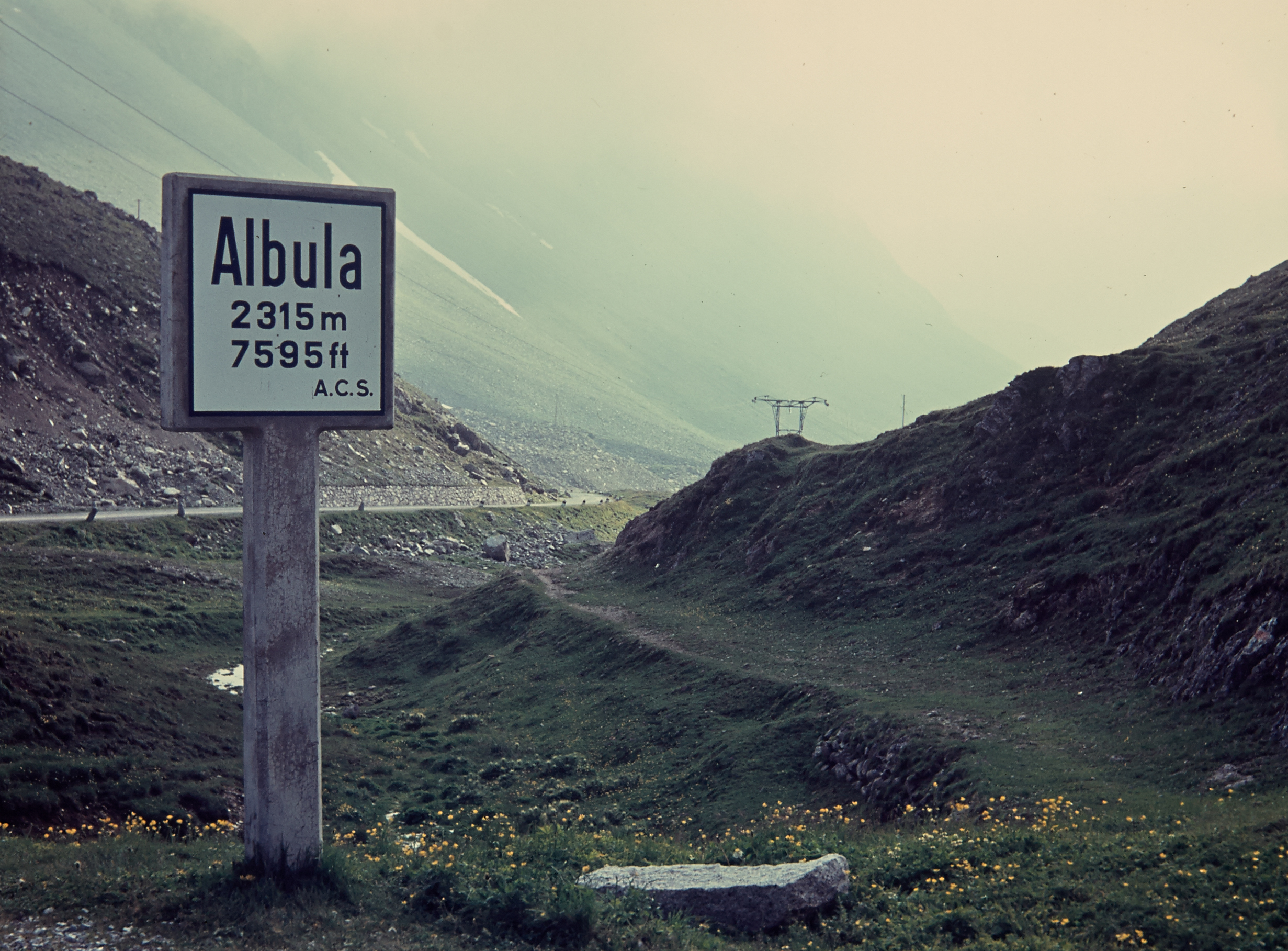 Albulapass 1963